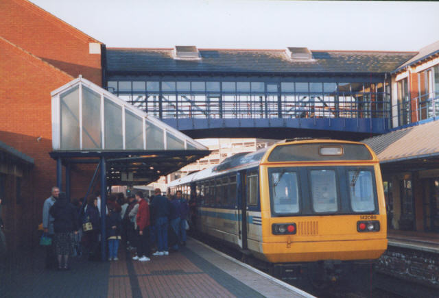 Morning crowds, Barnsley station. The 0556 Huddersfield - Barnsley service is rarely this crowded but most of the passengers were changing into a Green Express charter train.